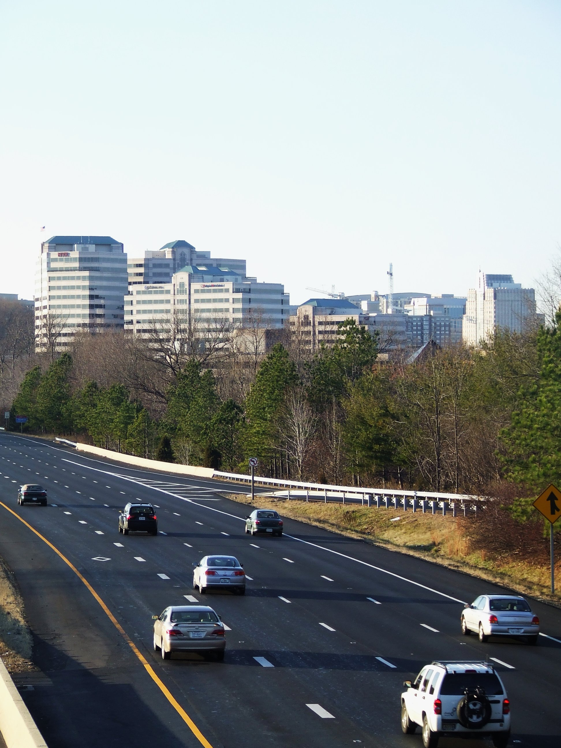 Route 267, also known as the Dulles Toll Road, taken from Wiehle Avenue. Joshua Davis Photography [1] Copyright 2006 Joshua Davis, some rights reserved.